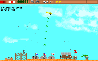 Screenshot of shareware computer game Triplane Turmoil. This particular screenshot has been released of copyrights by Teemu Takanen, managing director of Dodekaedron Software Creations, the copyright holder of Triplane Turmoil.